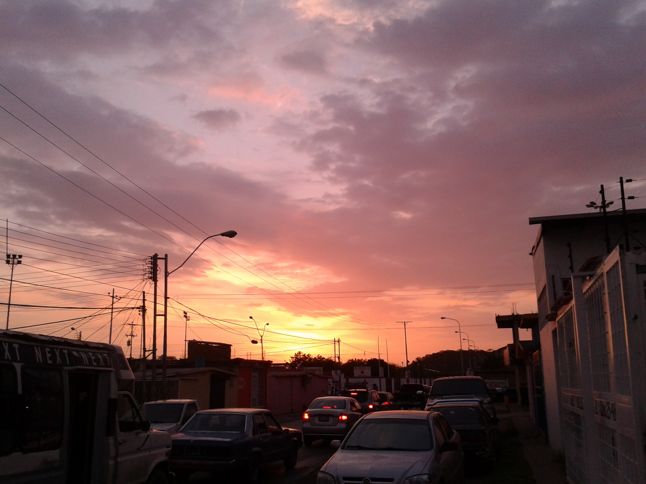 un típico atardecer en Barcelona - Anzoategui.